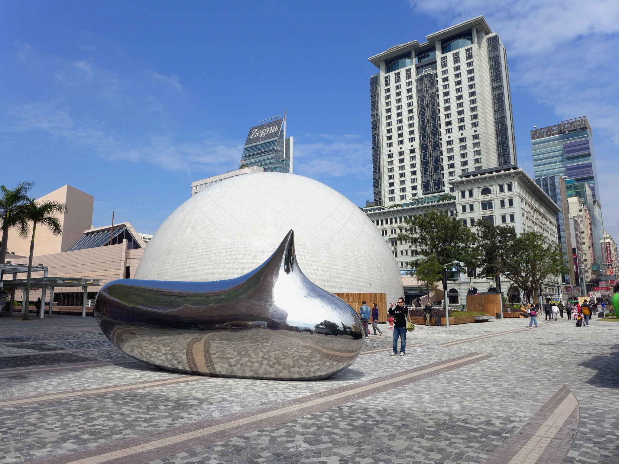 The Art Square at Salisbury Garden 梳士巴利花園藝術廣場